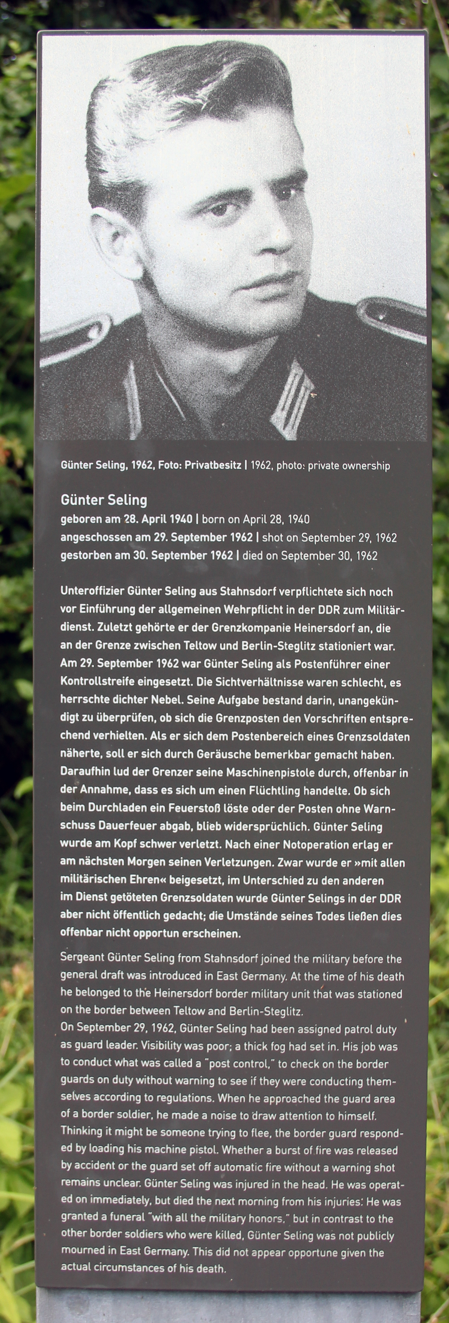 Memorial plaque, Günter Seling, Lichterfelder Allee, Teltow, Deutschland